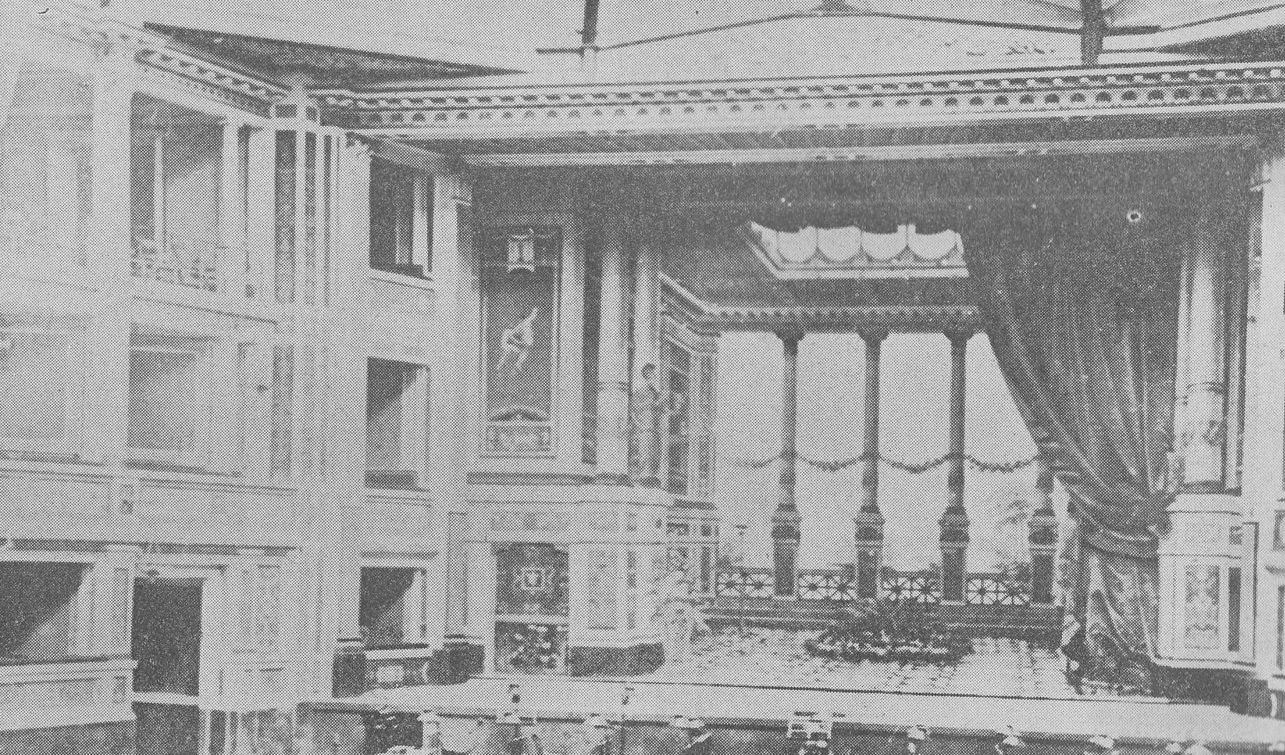 "Politeama Pisano" Theatre stage in Pisa, Tuscany, Italy.